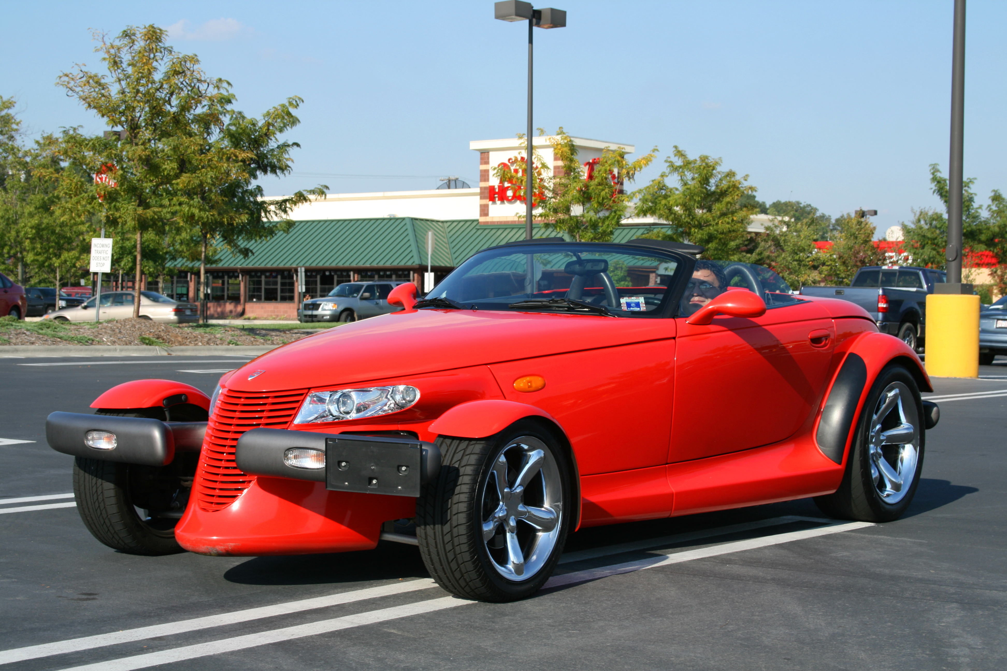 A red Plymouth Prowler at the South Square shopping centre parking lot in Durham, North Carolina.